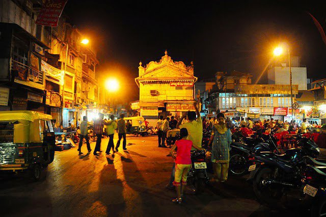 real beauty of old ahmedabad........ day in night